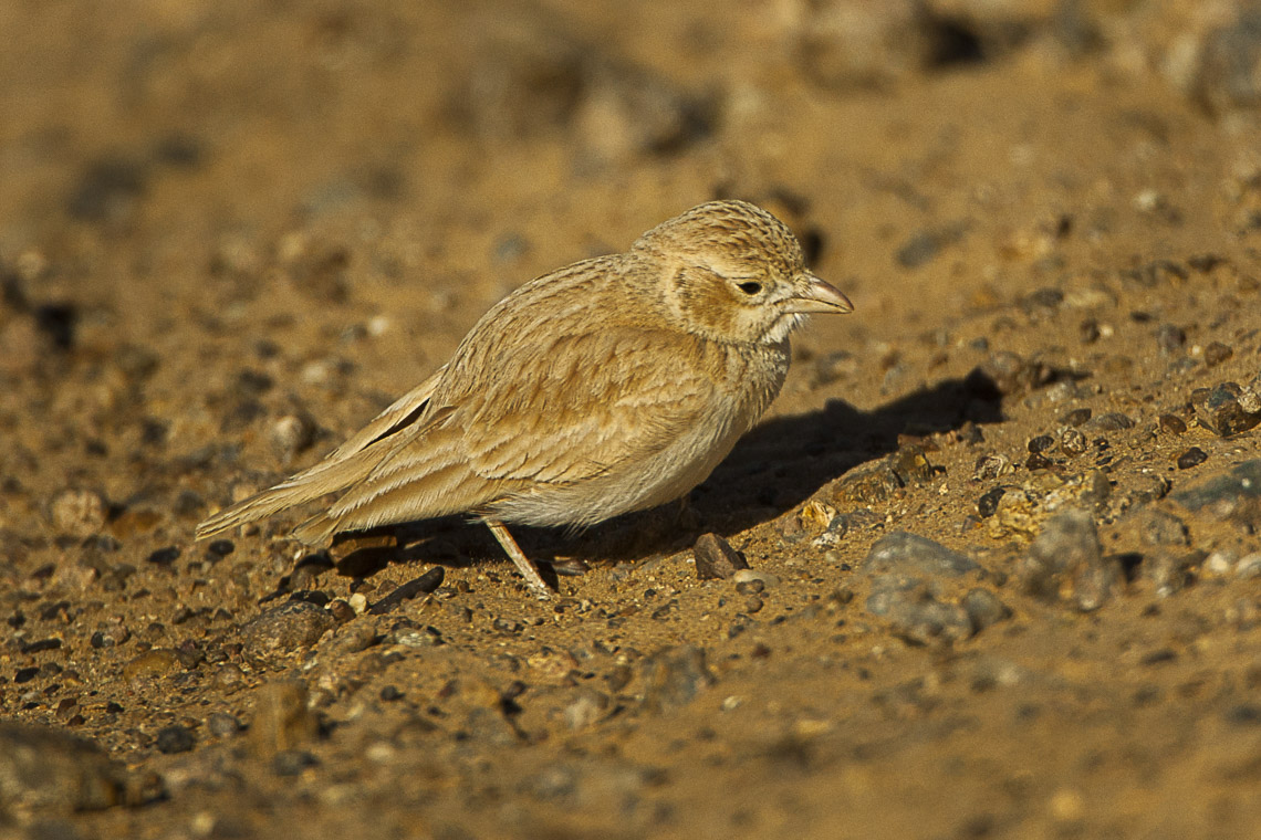 Desert Lark - Marocco 07_3548